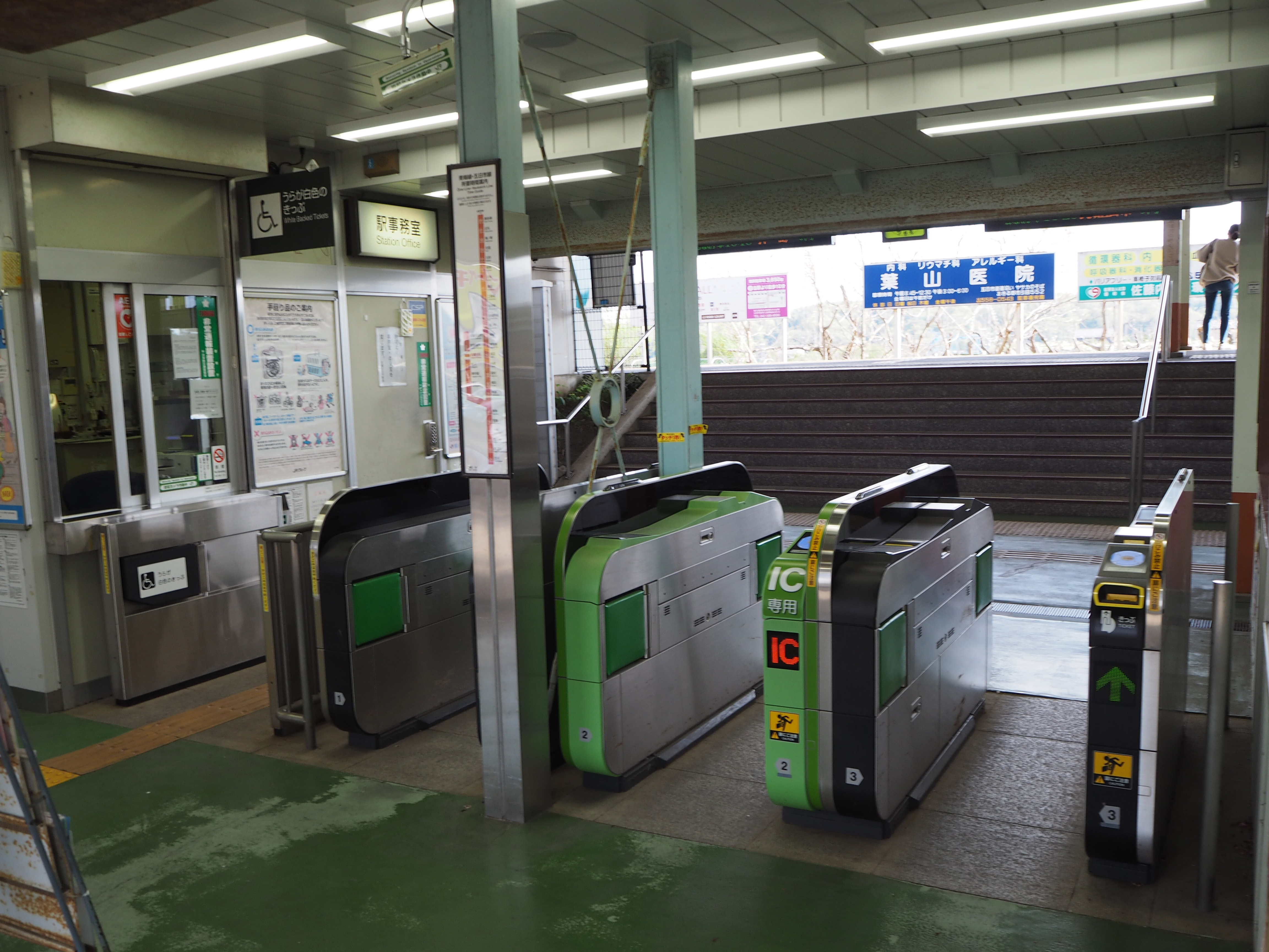 Ticket barriers of Musashi-Hikida Station